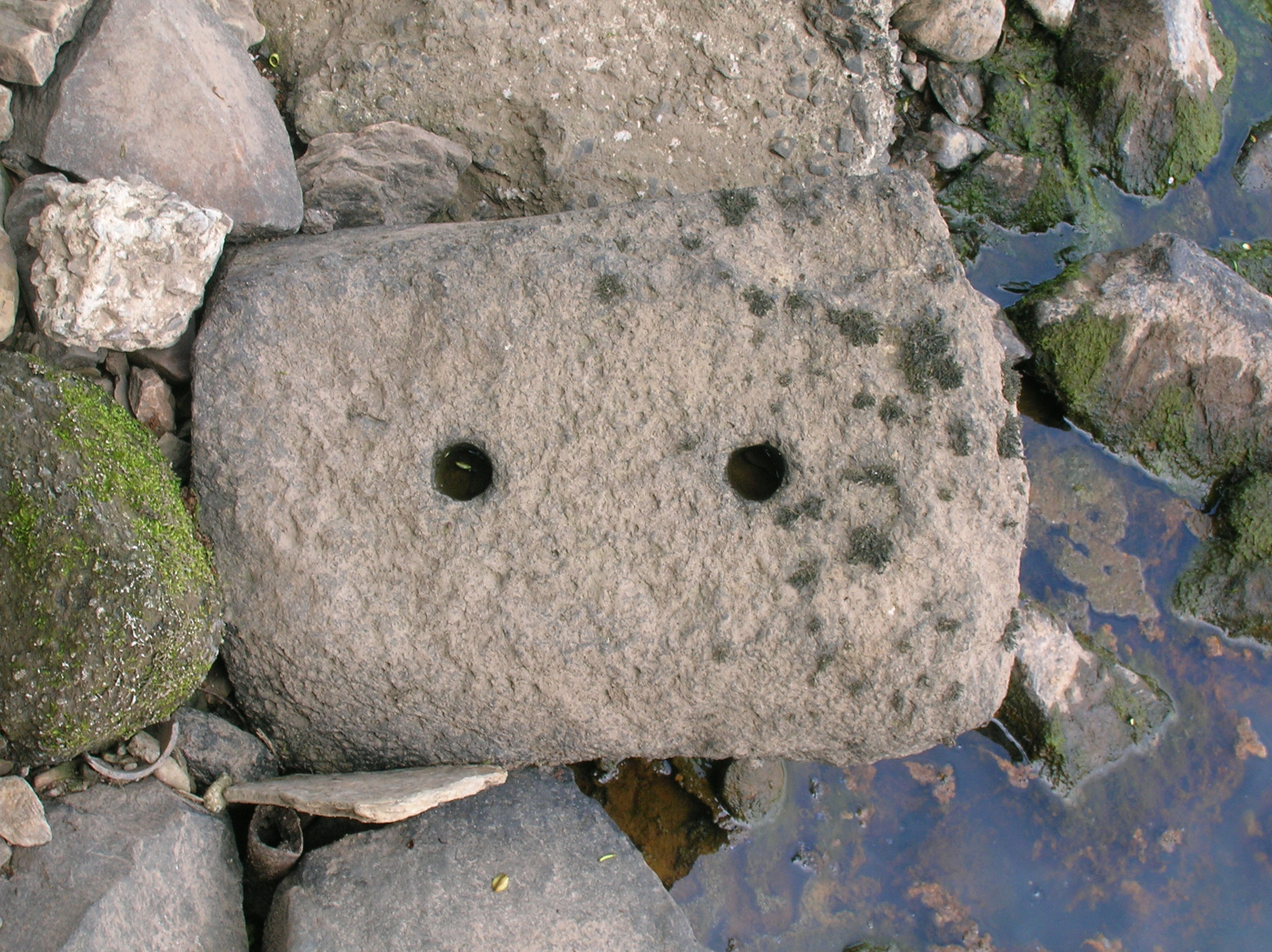 An original 1811 railway sleeper from the Kilmarnock & Troon tramway at Laigh Milton Viaduct in the River Irvine.